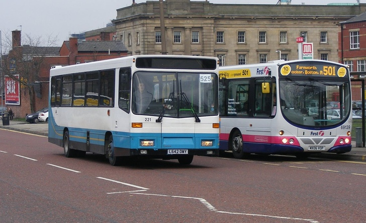 Two buses on Blackhirse Street, Bolton. On the left is Northern Blue 221 (reg. L642 OWY), a 1994 Volvo B6 with Alexander Dash bodywork, while on the right is First Manchester 69139 (reg. MX06 VOP), a 2006 Volvo B7RLE with Wright Eclipse Urban bodywork.